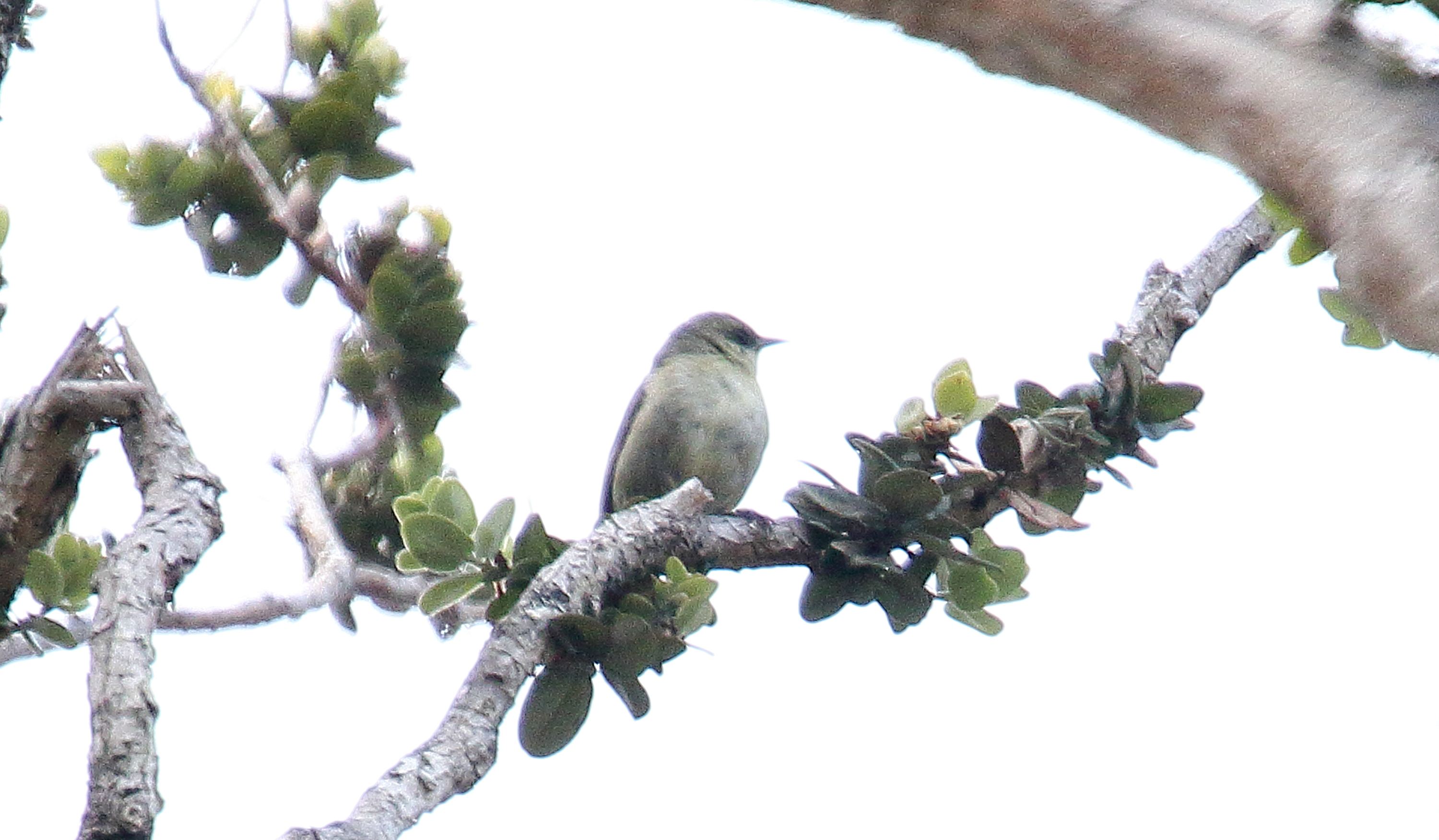 Hawaii Creeper (Loxops mana)